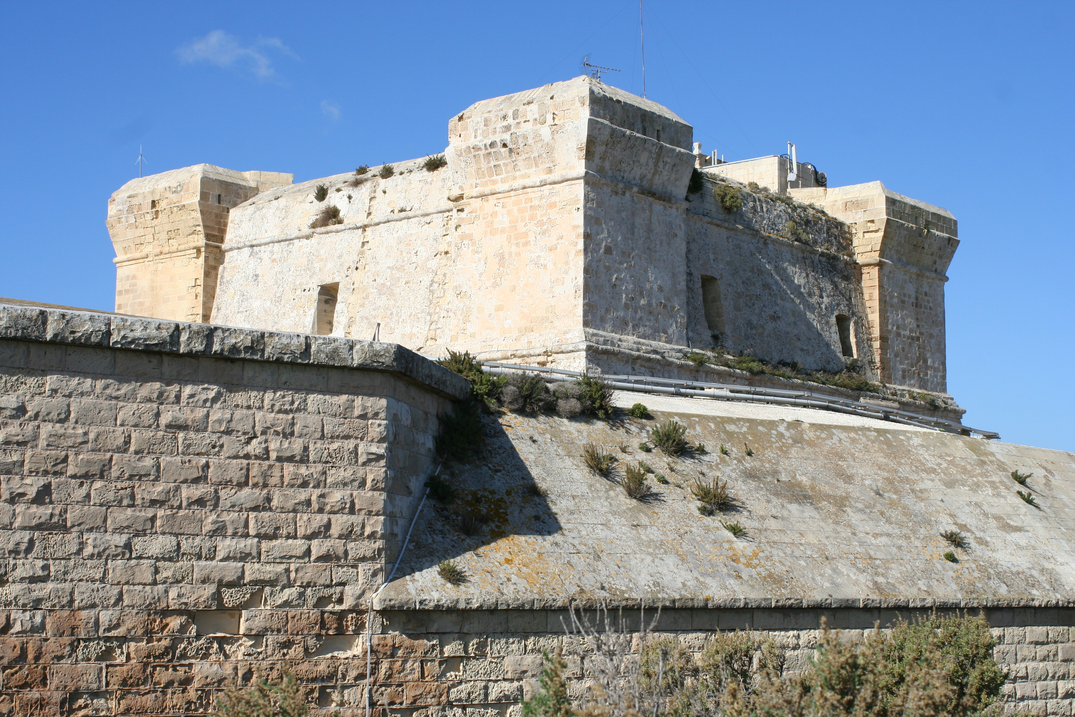 Malta, Marsaxlokk, St. Lucian's tower